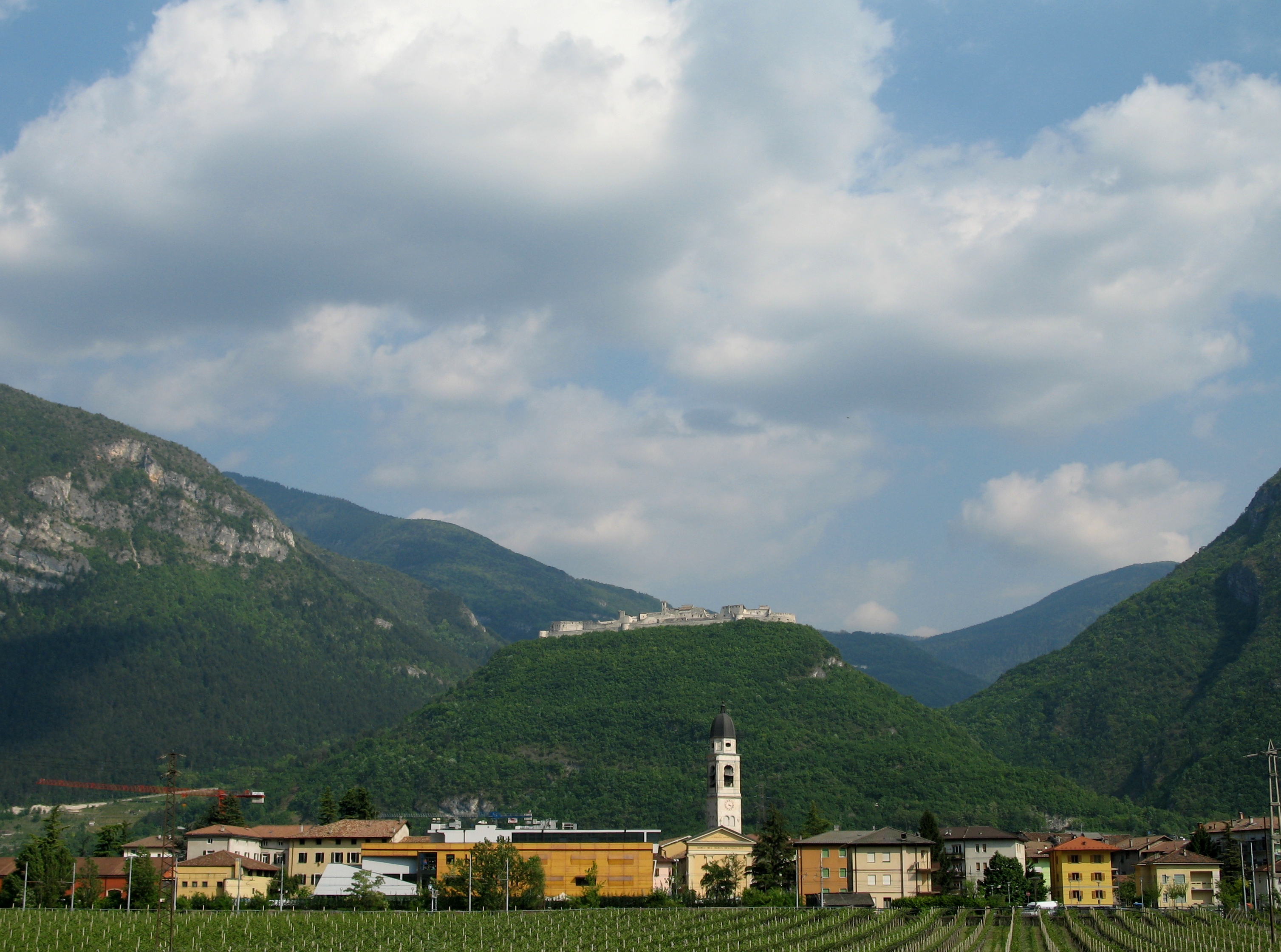 Calliano (province of Trento, Italy): Castel Beseno above the San Lorenzo church.